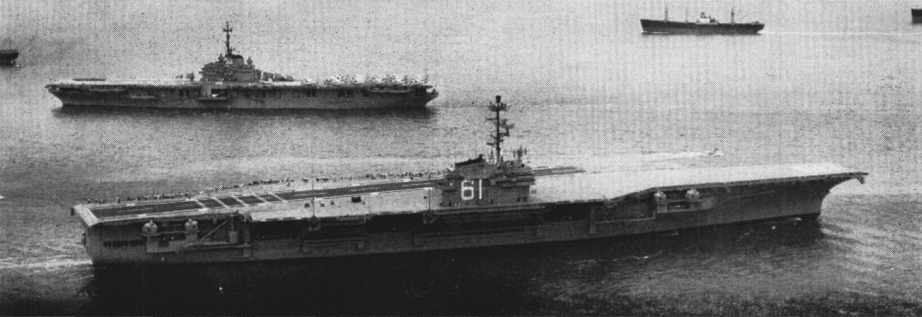 The U.S. Navy aircraft carrier USS Ranger (CVA-61) passes USS Leyte (CVS-32) during sea trials in 1957. Ranger was built at Newport News Shipbuilding & Drydock Co., Newport News, Virginia (USA), and commissioned on 10 August 1957.